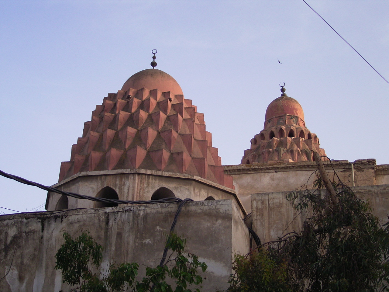 Domes of the madrasa complex of Nur al-Din Mahmud (Zangid ruler) in Damascus